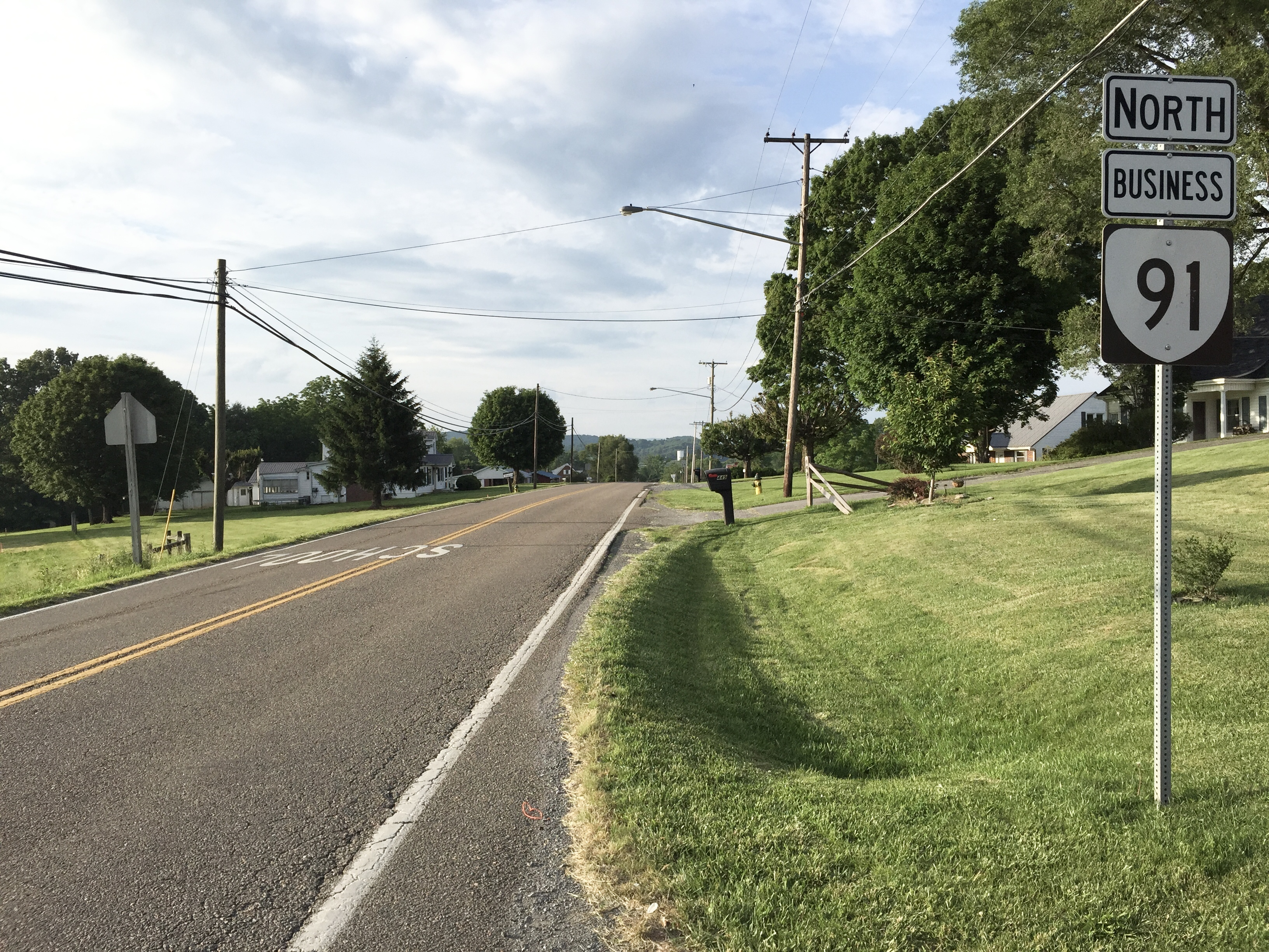 View north along Virginia State Route 91 Business (Maple Street) at Virginia State Route 91 (Monte Vista Drive) in Glade Spring, Washington County, Virginia